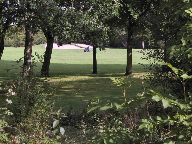 In the Rough